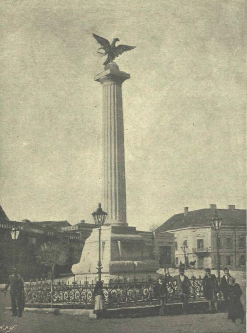 Millennium monument in Dej